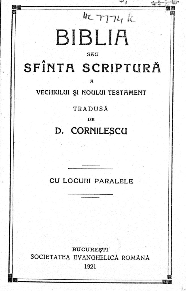 The Titlepage of the Cornilescu 1921 version